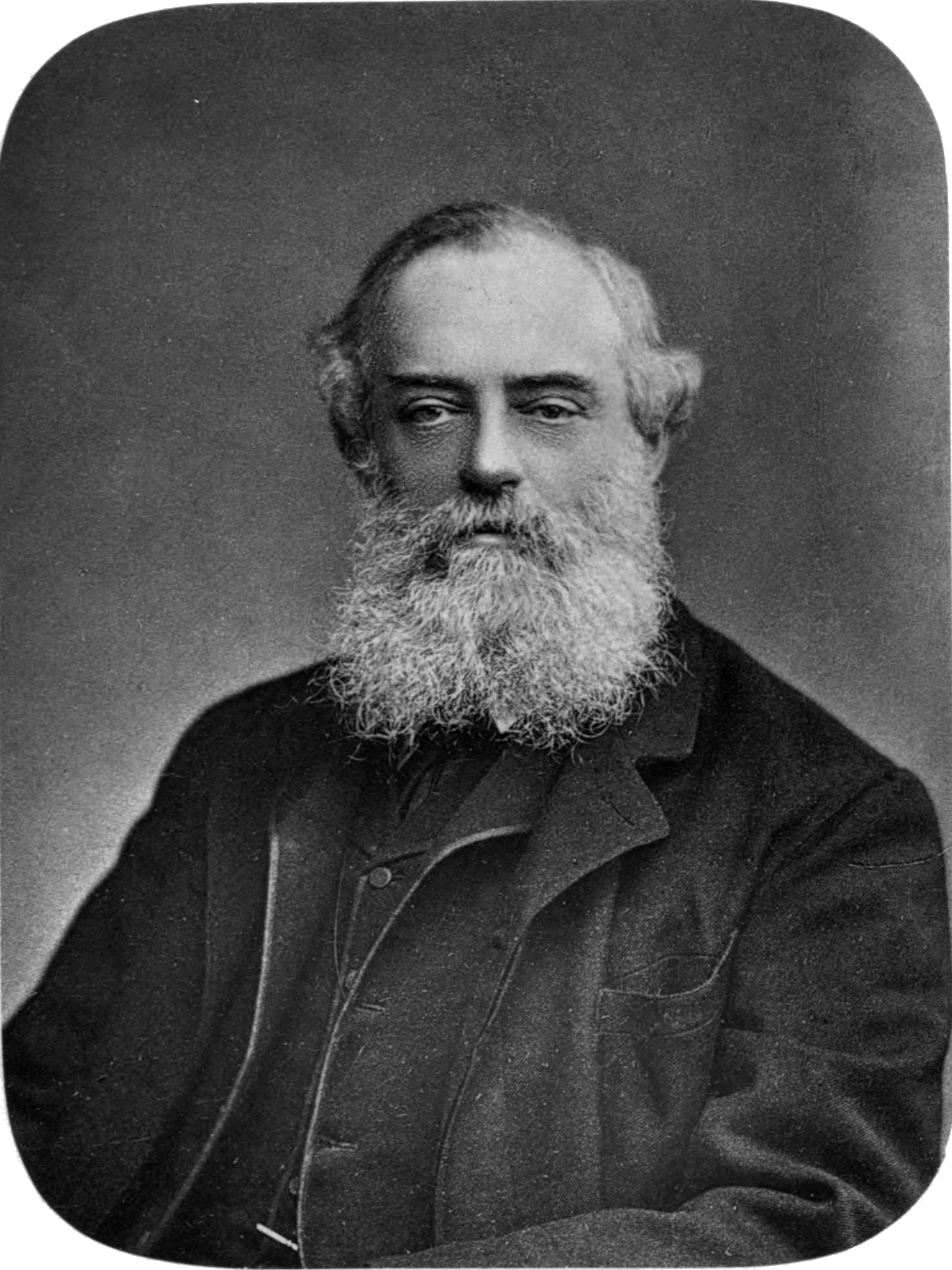 Woodburytype portrait of William Thomas Blanford.